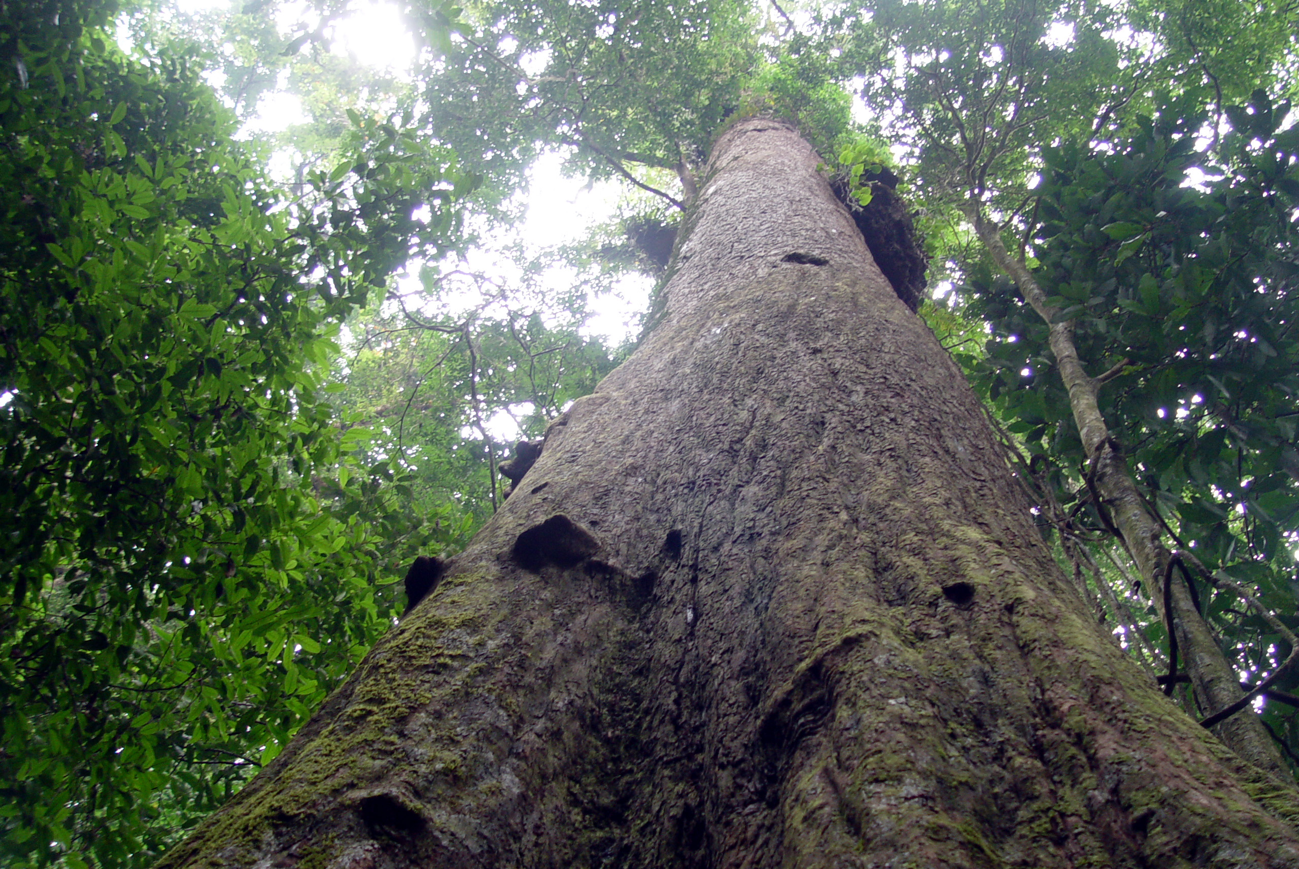 Biggest Chengal tree - Malaysian Peninsula